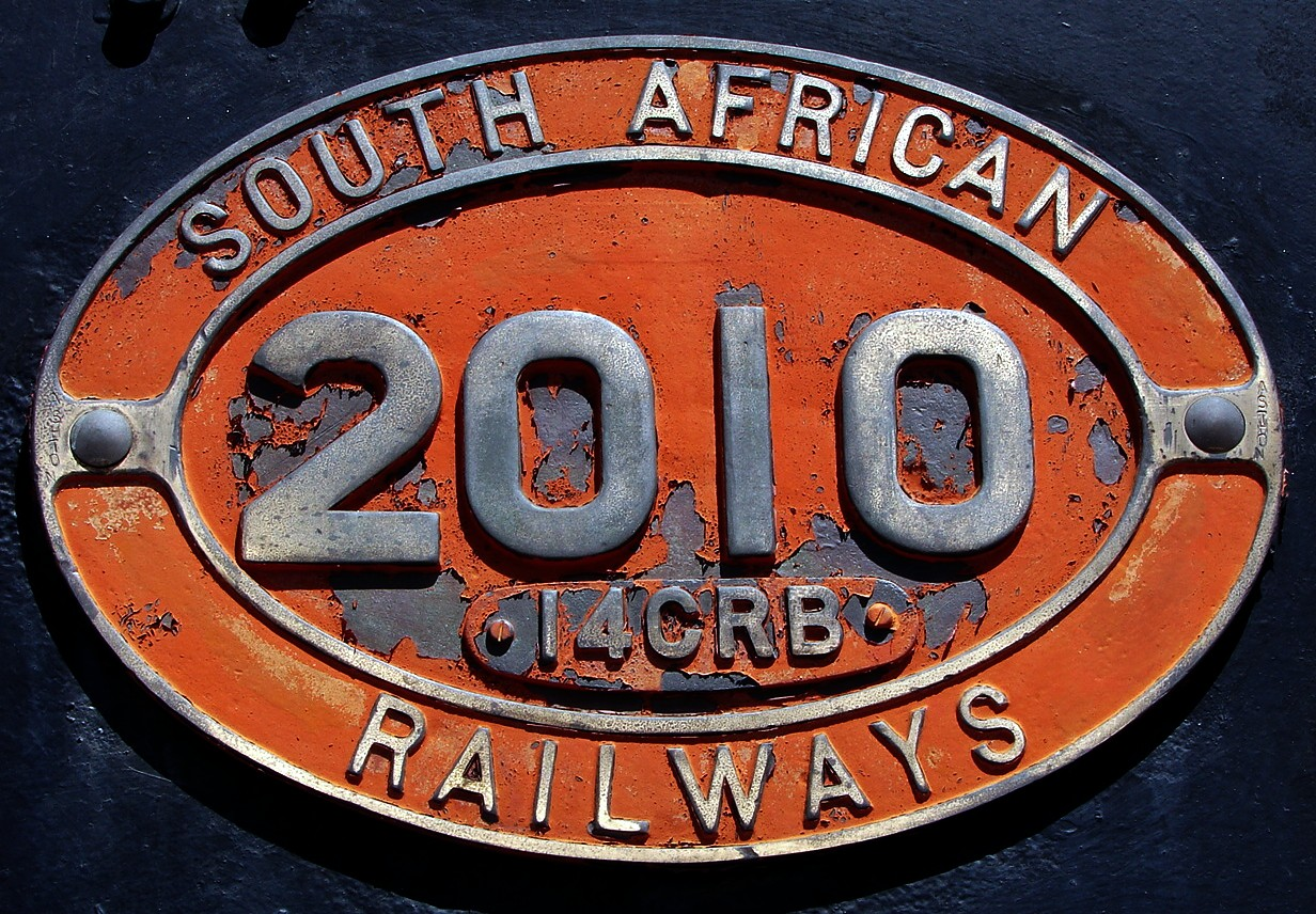 SAR Class 14CRB 2010 (4-8-2) number plate Builder's Number: Montreal 60565 Location: Ashton, Western Cape